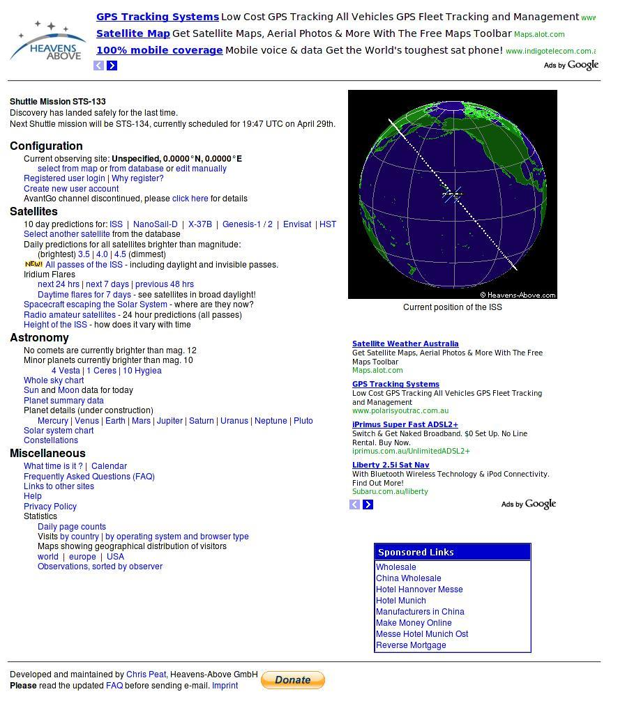 The not for profit website Heavens-Above in 2011. The website helps internet users to see stars, planets and satellites with or without the use of any equipment. A popular tool for those wishing to see the Space station, observe the planets, or identify heavenly objects they have seen, or want to see, in the past, present or future.